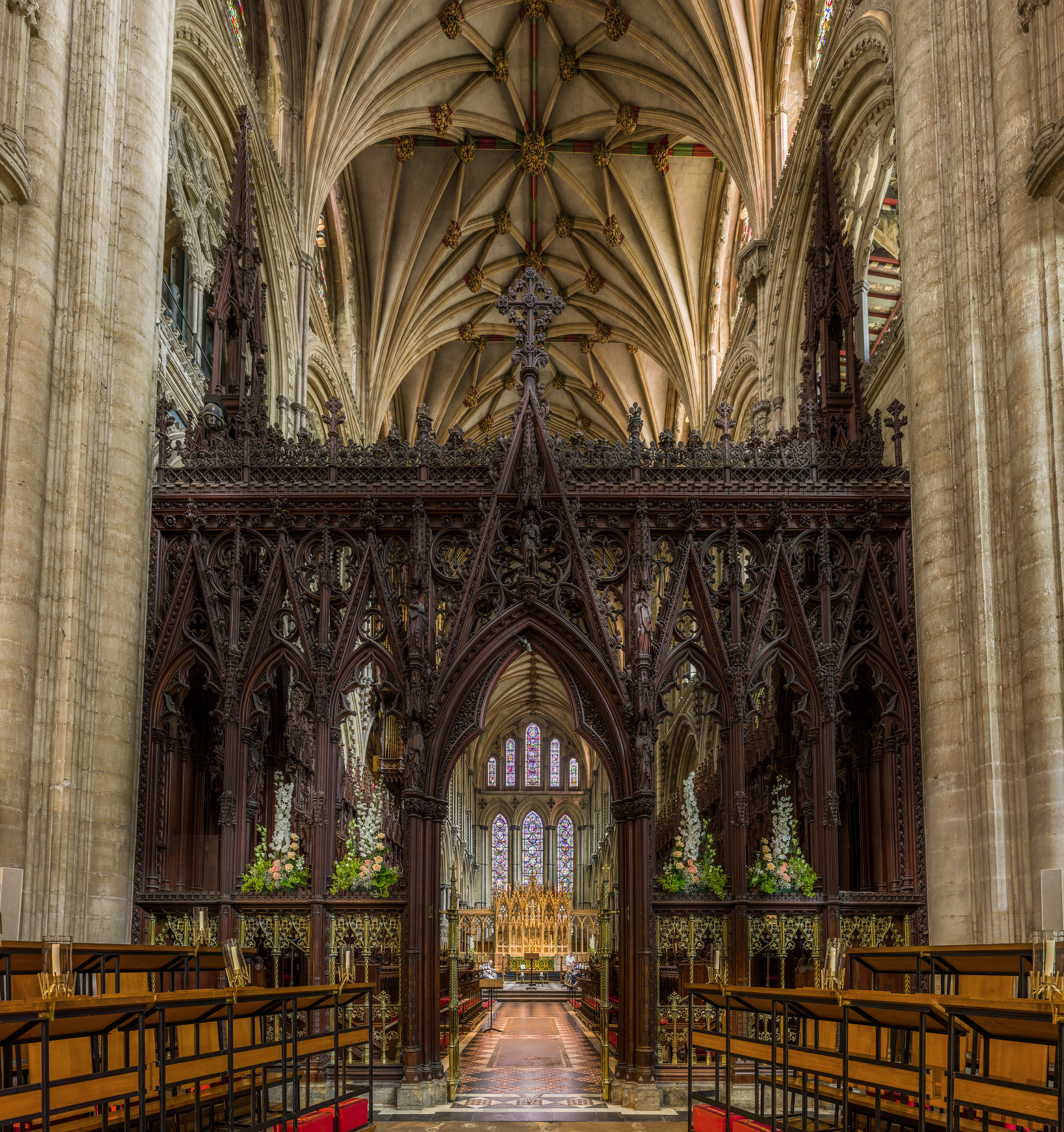 The rood screen as viewed from the nave looking towards the choir of Ely Cathedral, Cambridgeshire, England.